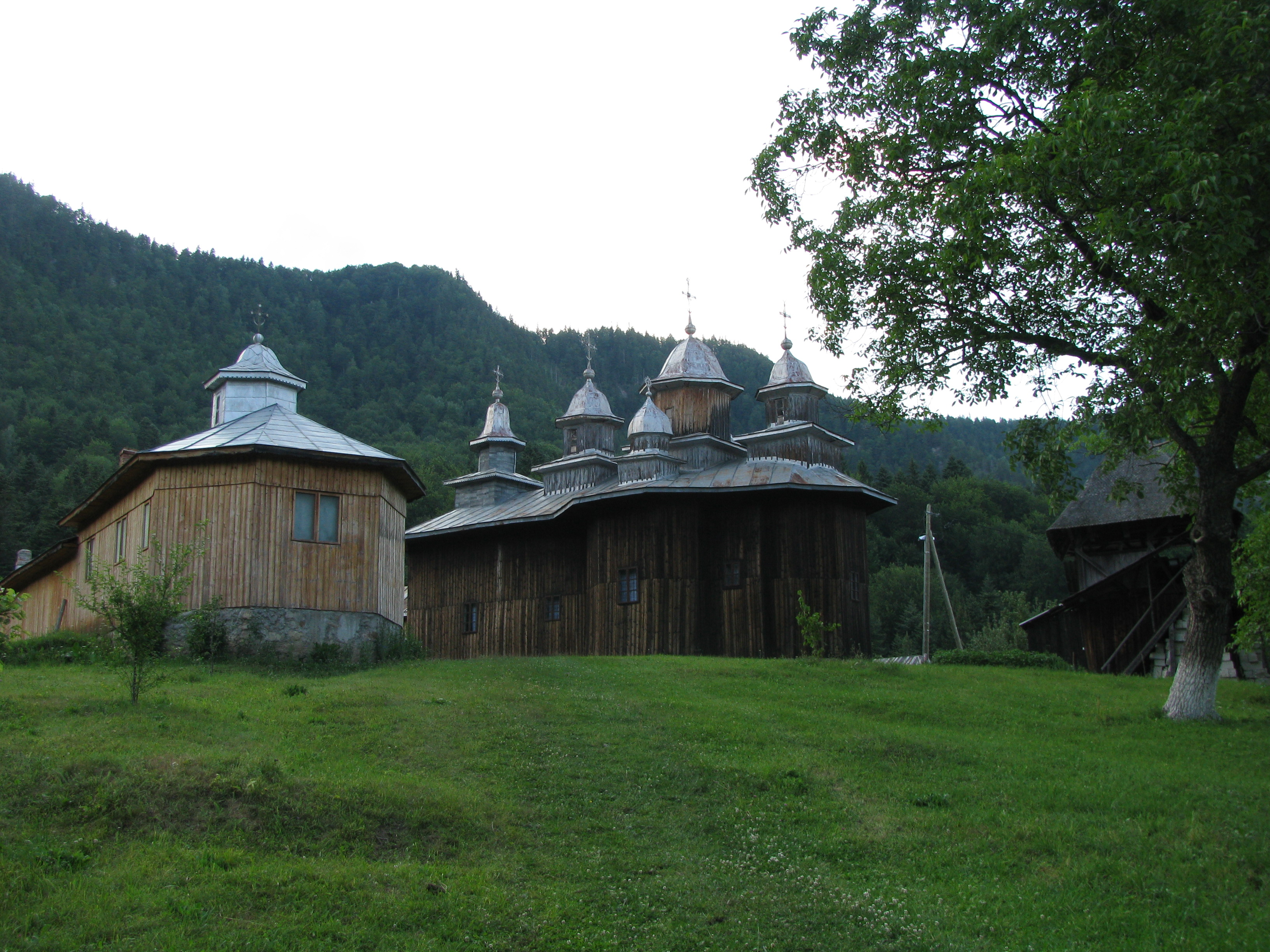 Wooden church "Adormirea Maicii Domnului" from Găvanu village, Mânzăleşti commune, Buzău county, Romania